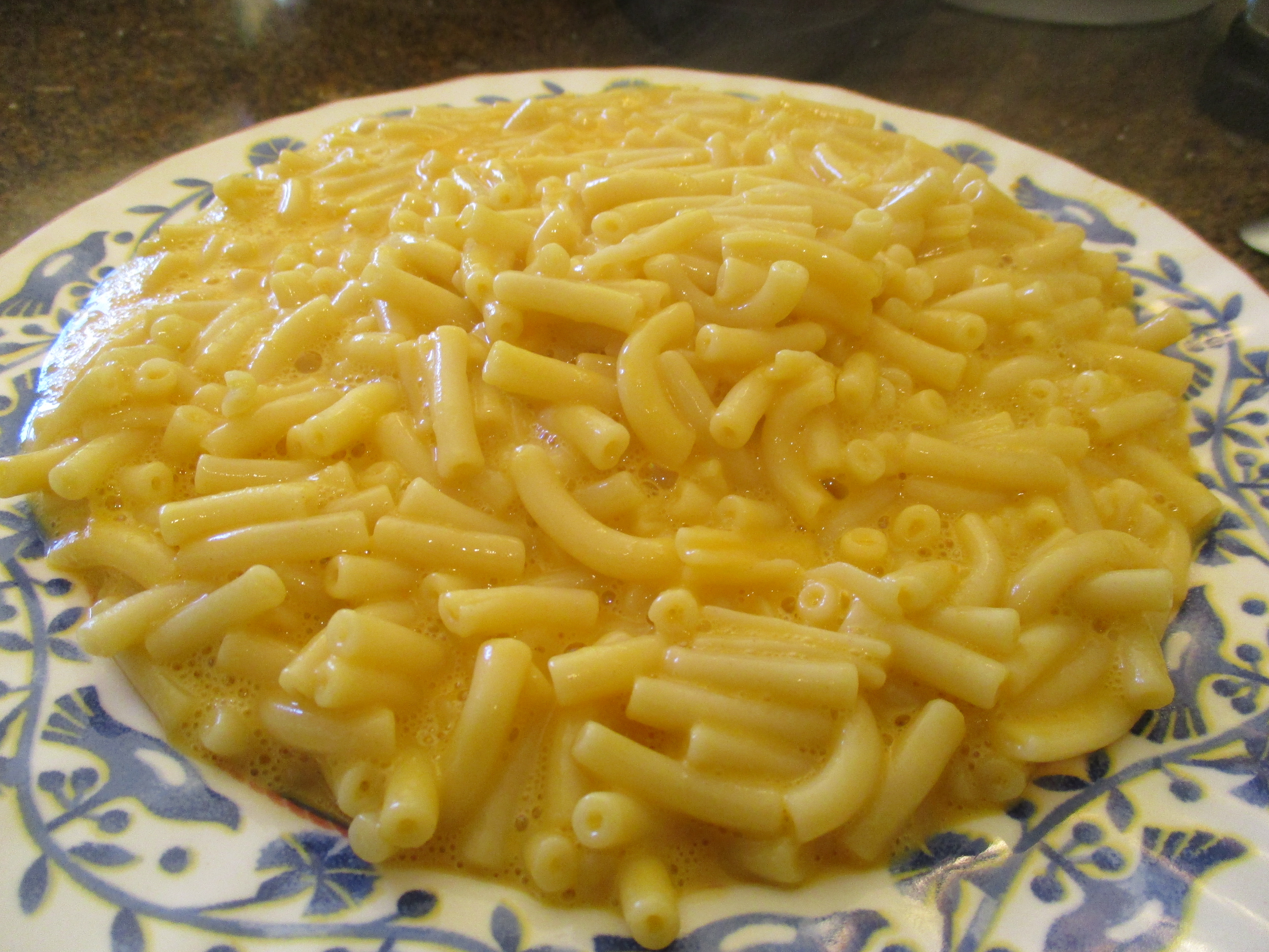 4 T butter, 1/4 c milk Satchet chee powder Enriched macaroni (tenderoni) pipettes cooked 7 minutes, drained, mixed in pan